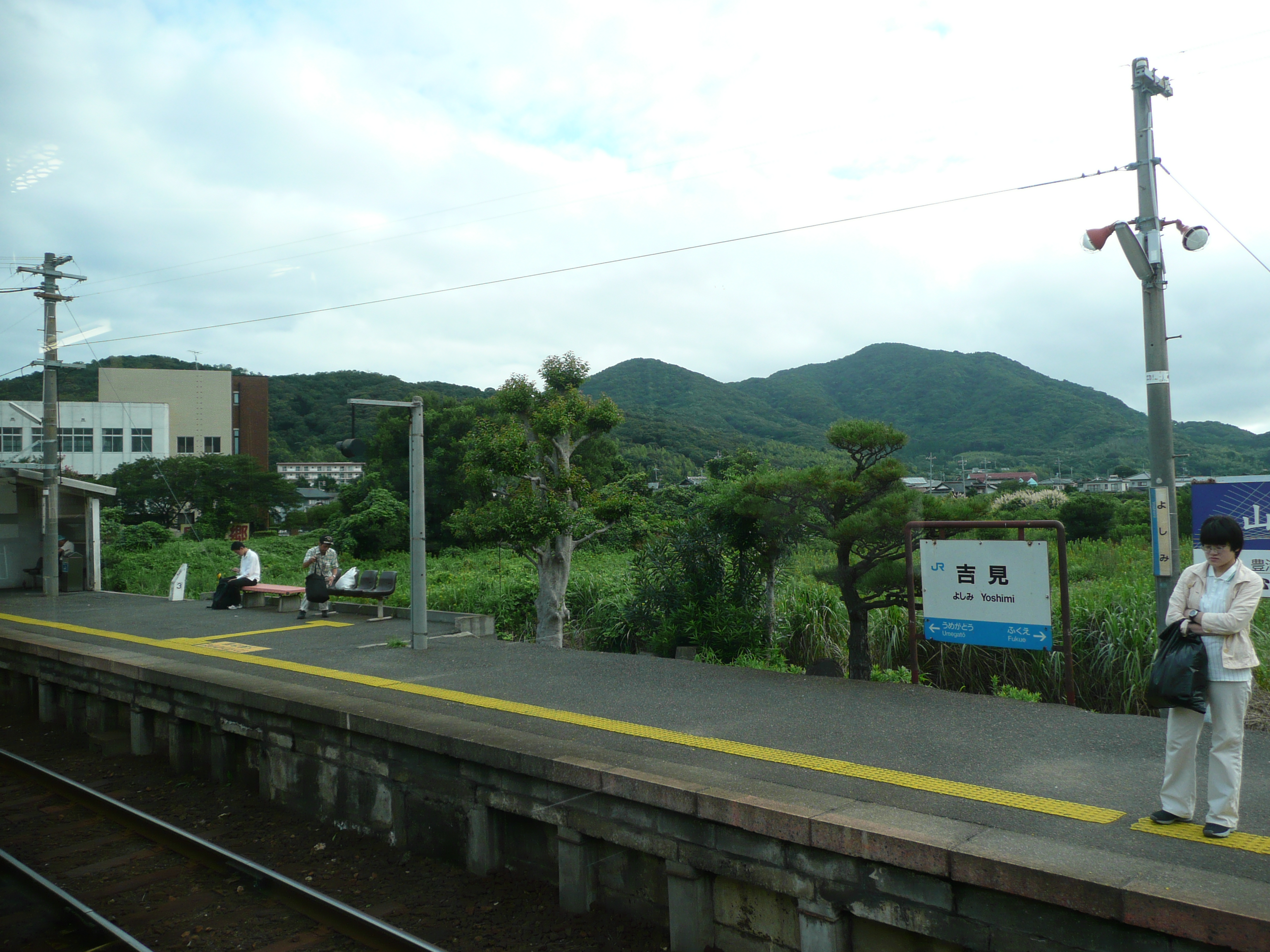 Yoshimi Station platform